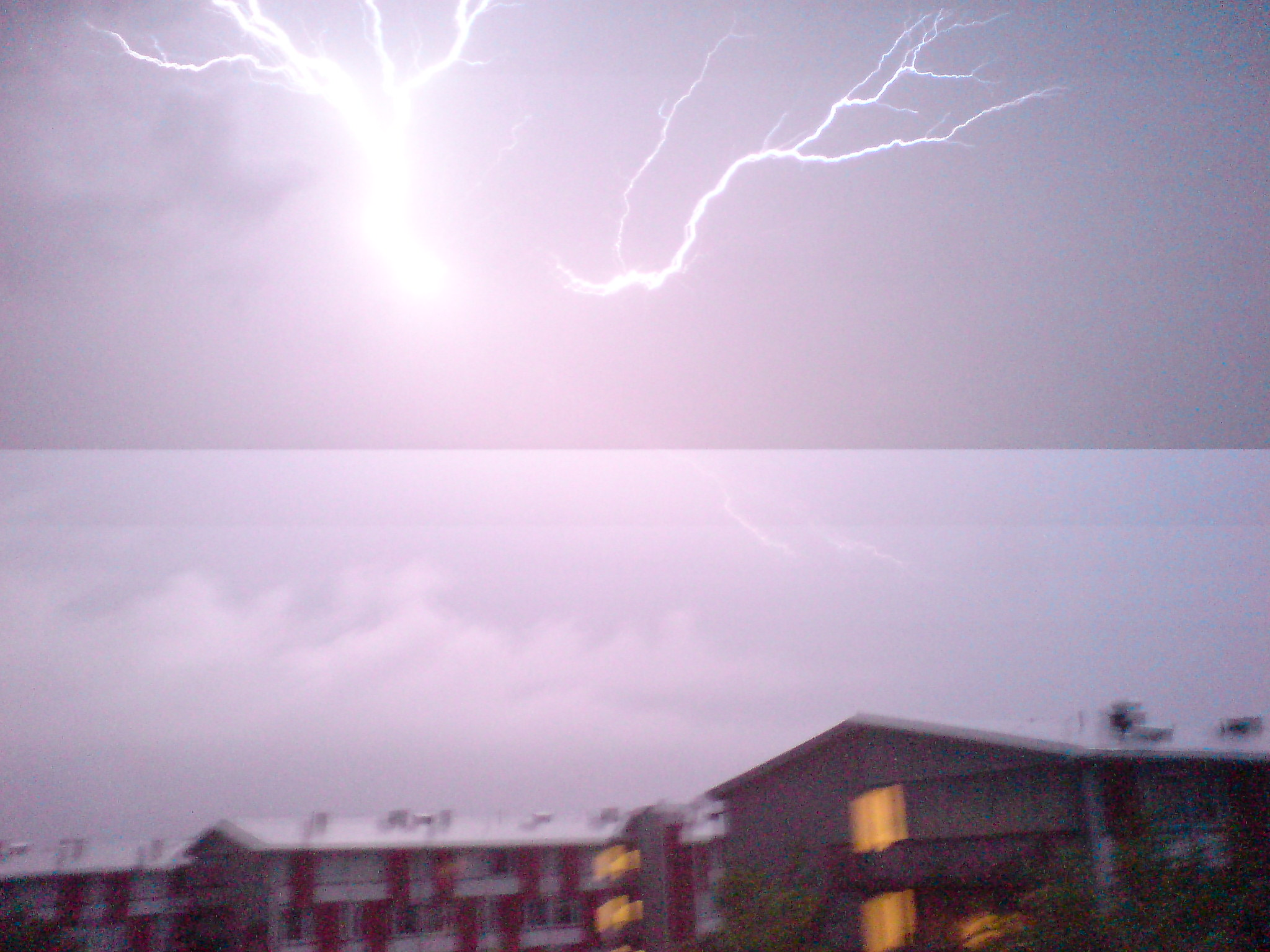 Lightning photo illustrating the effects of CMOS rolling shutter